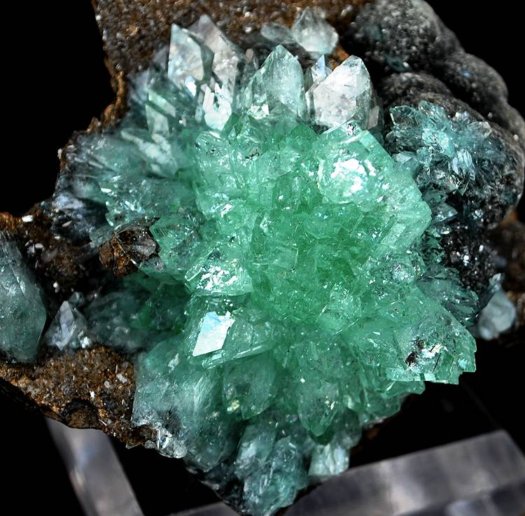 Apophyllite-(KF) Locality: Jalgaon District, Maharashtra, India (Locality at ) Size: 8.0 x 7.5 x 4.6 cm. A fabulous and very aesthetic matrix apophyllite specimen from recent finds at Jalgaon. A superb rosette of gemmy and lustrous, green to colorless apophyllite crystals is dramatically placed on the sculptural, knobby to botryoidal matrix crust. The apophyllite rosette is essentially pristine. Outstanding material.